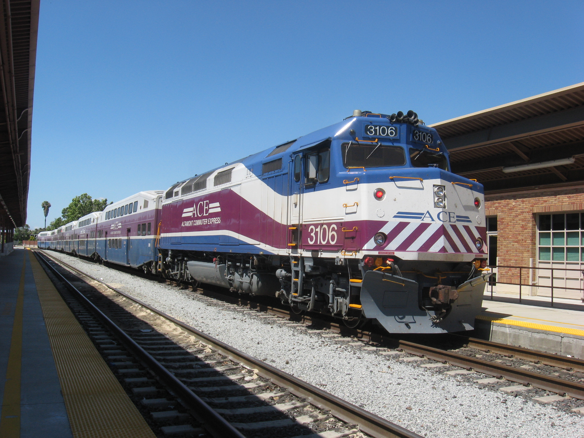 Altamont Commuter Express MPI F40PH-3C No. 3106 leads a train at San Jose Diridon Station.